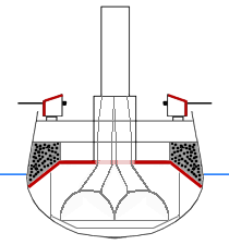 Typical protected cruiser armour scheme. Red lines represent armoured deck and gun shields, black dots represent coal magazines, giving extra protection. Below the armoured deck there was a machinery. Author: Pibwl, uploaded to en Wiki December 9,2003